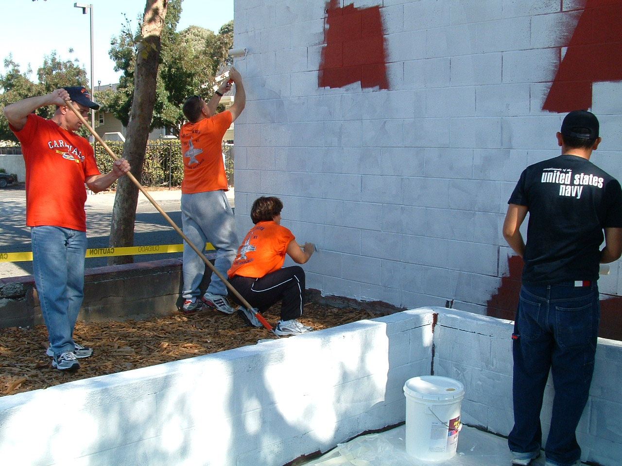 San Francisco, (Oct. 9, 2006) – Strike Fighter Squadron Eight One (VFA-81) Commanding Officer, Cmdr. Mike Boyle, and his wife (center) lead a painting crew at the East Oakland Youth Development Center in Oakland, California. Personnel assigned to USS Nimitz (CVN 68) and the embarked air wing spent two days painting and cleaning at the facility as part of a community relations project during San Francisco Fleet Week. U.S. Navy photo by Senior Chief Mass Communication Specialist Bob Hansen (RELEASED)